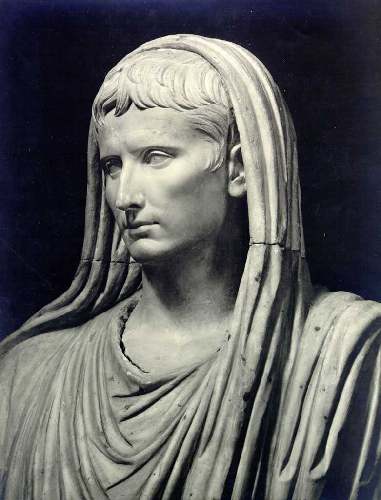 The Via Labicana Augustus, the Roman emperor Augustus as pontifex maximus, with his head veiled for a sacrifice, National Museum of Rome.